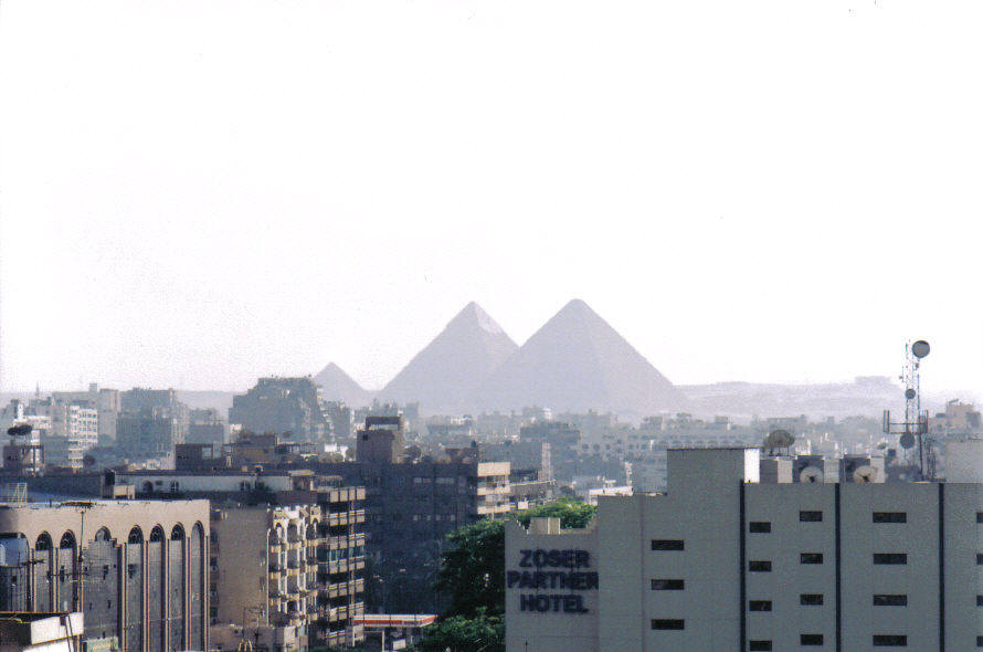 A view of the pyramids at Giza, showing the surrounding city.